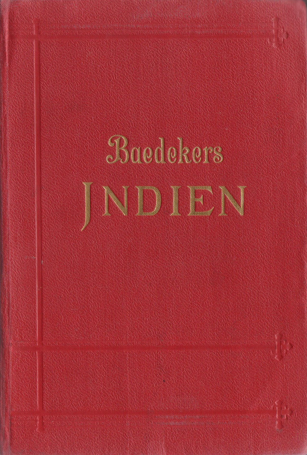 Frontcover of Baedekers Indien 1914